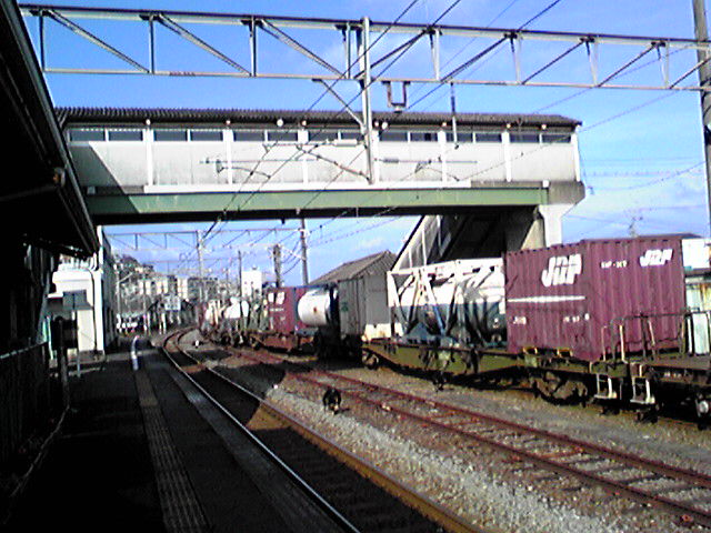 The view from platform of JR Nishi-Oita Station